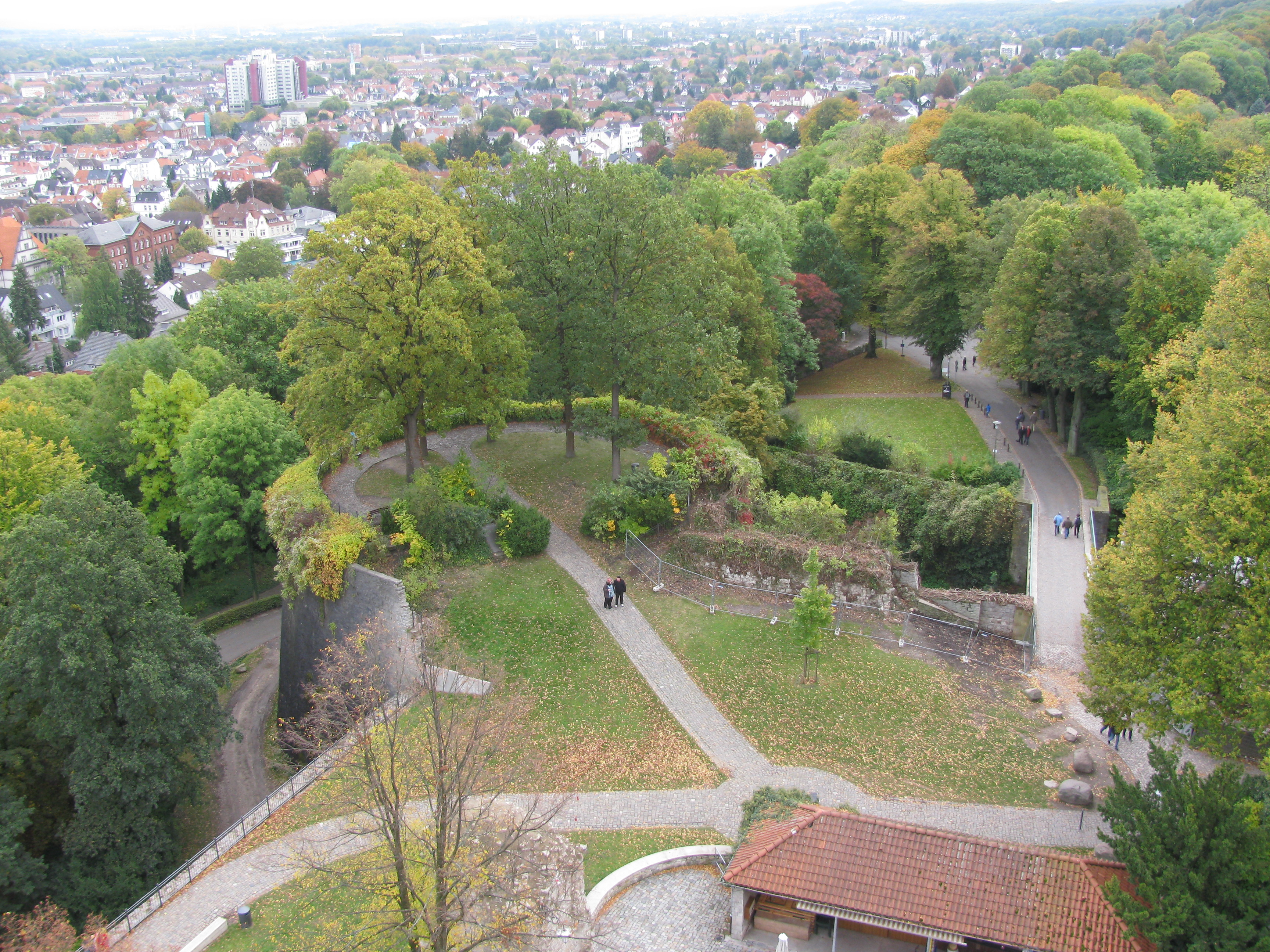 Fortress Sparrenburg in the city of Bielefeld, Germany. View from the tower at the round bastion "Marienrondell" in the eastern corner of the building. Built in the early 16th century.